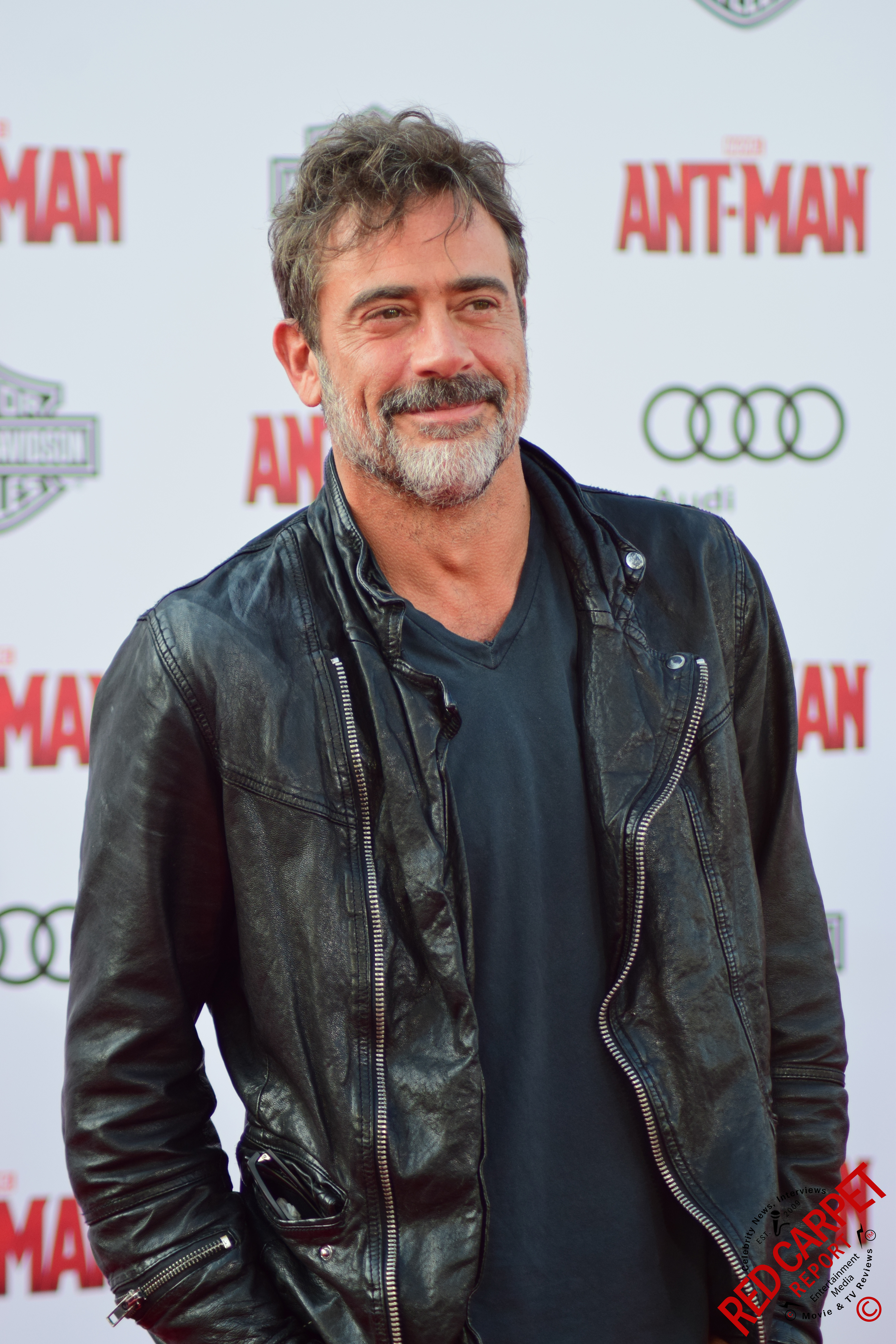 Mingle Media TV and our Red Carpet Report team were on hand for Marvel’s "Ant-Man” World Premiere at the Dolby Theatre in Hollywood. Get the Story from the Red Carpet Report Team, follow us on Twitter and Facebook at: About Ant-Man The next evolution of the Marvel Cinematic Universe brings a founding member of The Avengers to the big screen for the first time with Marvel Studios’ “Ant-Man.” Armed with the astonishing ability to shrink in scale but increase in strength, master thief Scott Lang must embrace his inner-hero and help his mentor, Dr. Hank Pym, protect the secret behind his spectacular Ant-Man suit from a new generation of towering threats. Against seemingly insurmountable obstacles, Pym and Lang must plan and pull off a heist that will save the world. Marvel’s “Ant-Man” stars Paul Rudd as Scott Lang aka Ant-Man, Evangeline Lilly as Hope Van Dyne, Corey Stoll as Darren Cross aka Yellowjacket, Bobby Cannavale as Paxton, Michael Peña as Luis, Judy Greer as Maggie, Tip “Ti” Harris as Dave, David Dastmalchian as Kurt, Wood Harris as Gale, Jordi Mollà as Castillo and Michael Douglas as Hank Pym. Follow Marvel on Twitter: Like Marvel on FaceBook: For even more Marvel Comics news follow at Tumblr: Instagram: Google+: Pintrest: For more of Mingle Media TV’s Red Carpet Report coverage, please visit our website and follow us on Twitter and Facebook here